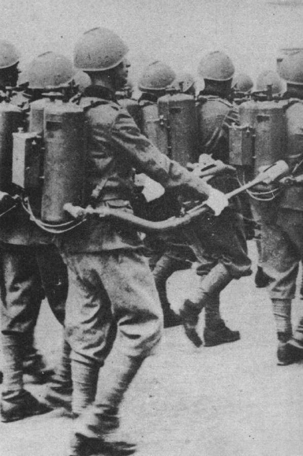 Italian wwII era flamethrower